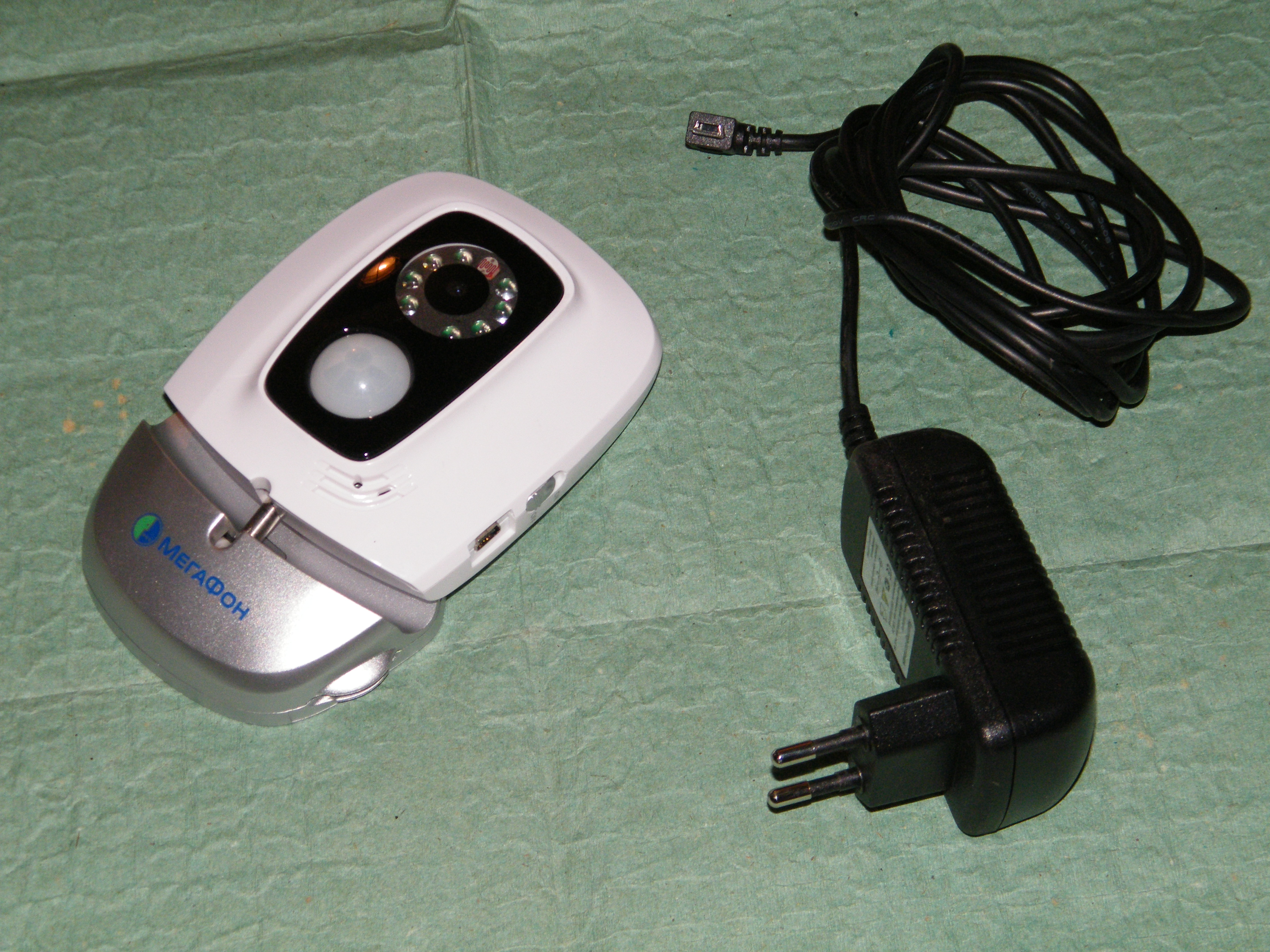 MMS-camera MegaFon V900